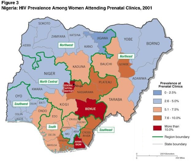 Prenatal HIV seropositivity, Nigerian 2nd Wave